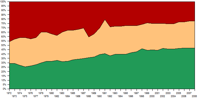 shows share of "free", "partly-free" and "unfree" countries in the world, based on data of "Freedom House"